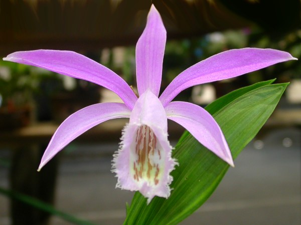 Pleione formosana